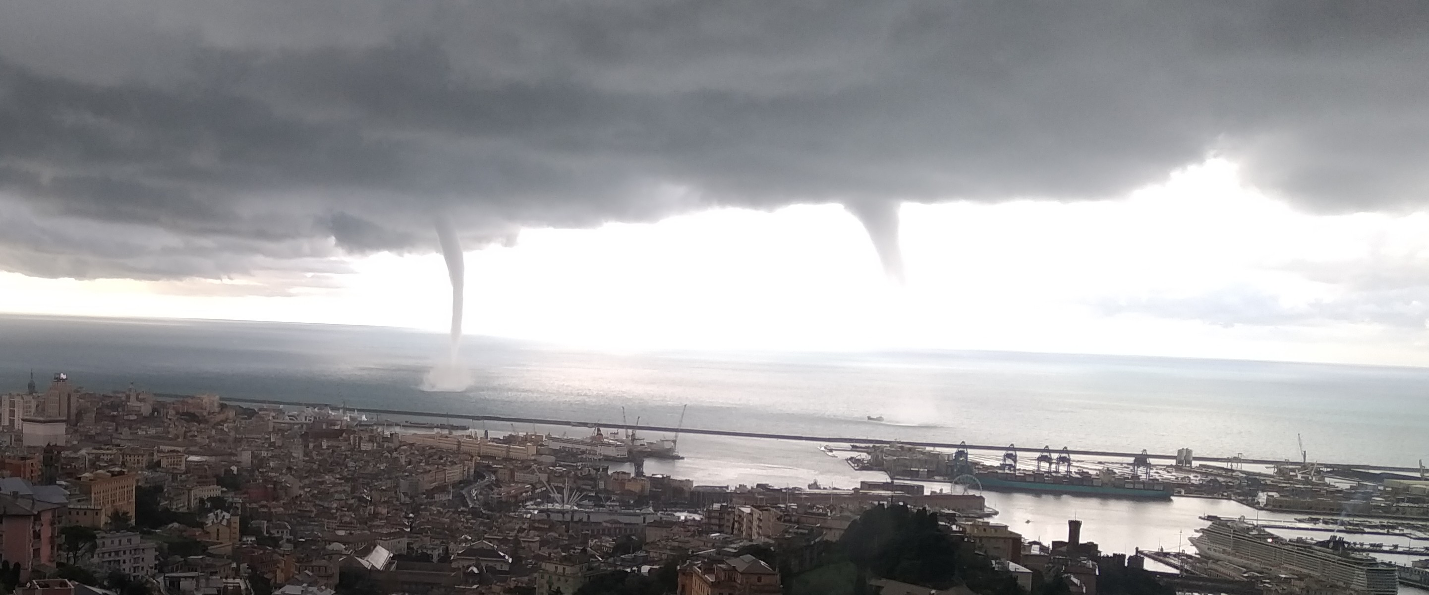 Two waterspouts in front of Genova (Italy) - november 2019